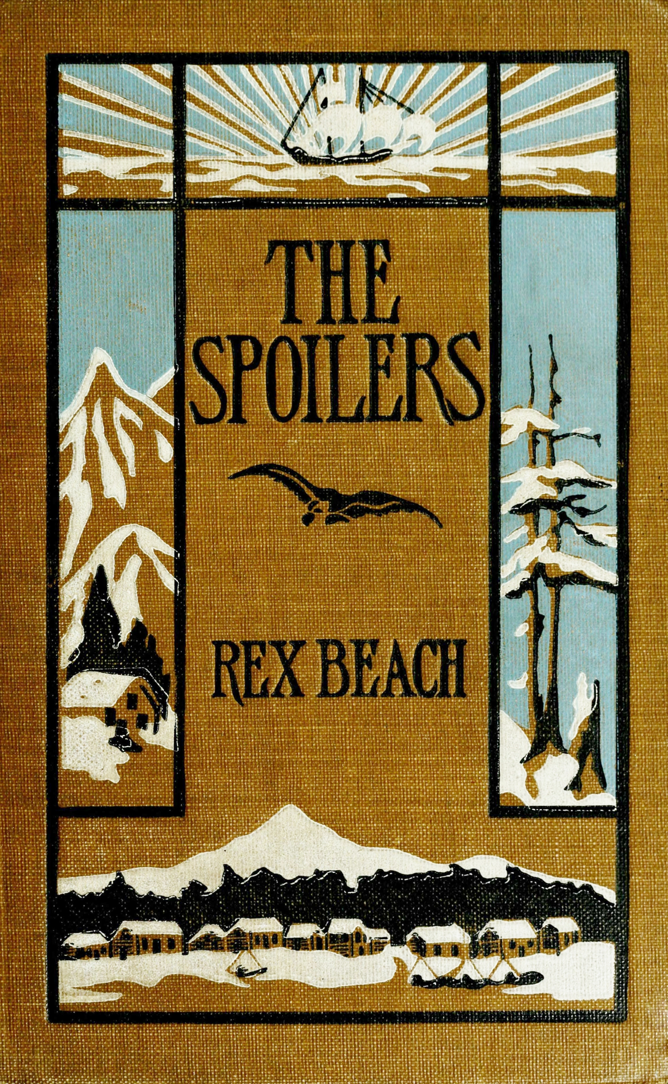 The Spoilers by Rex Beach, 1st edition